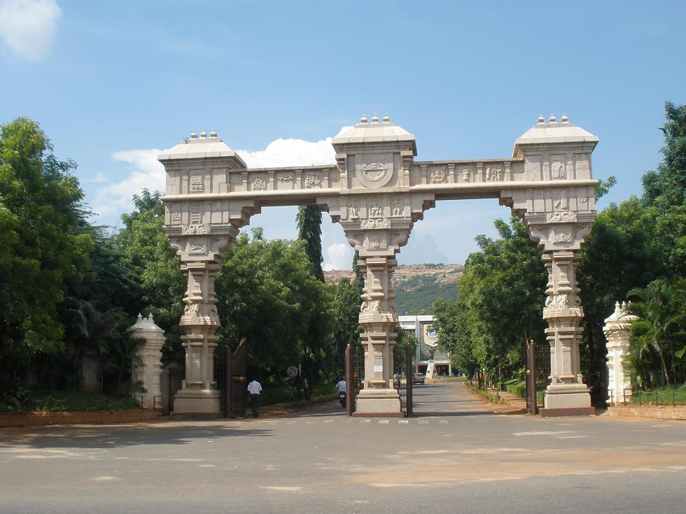 Main entrance of the Madurai Kamaraj University